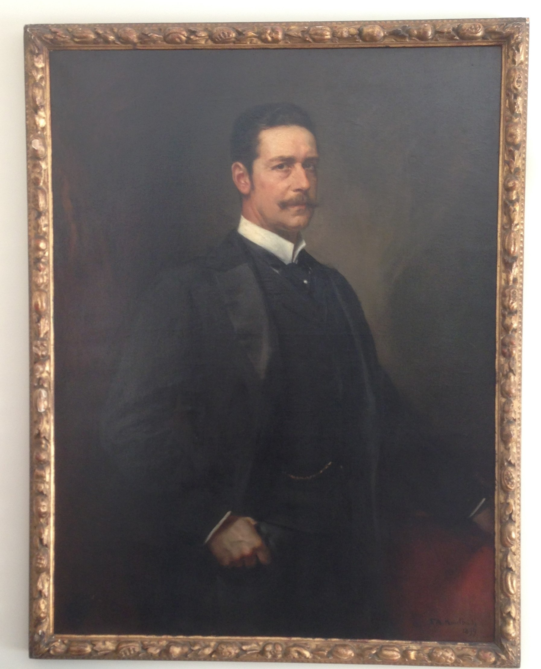 Portrait of Baron Maximilian von Heyl by Friedrich August von Kaulbach